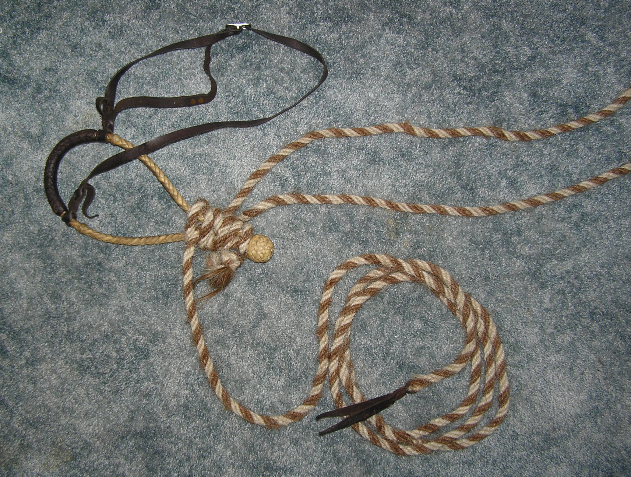 Pencil bosal with horsehair mecate. For a horse transitioning into a bit